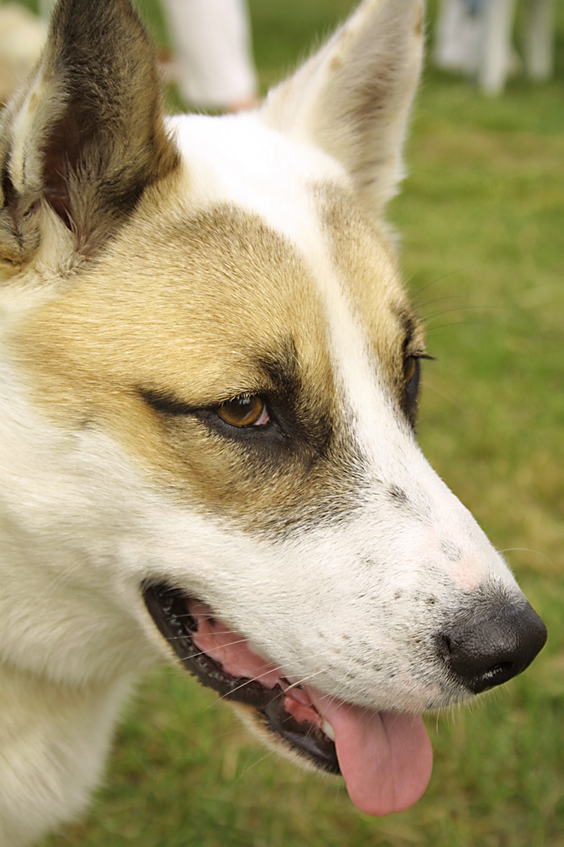 West Siberian Laika male. One year old. Author: PrzemekL